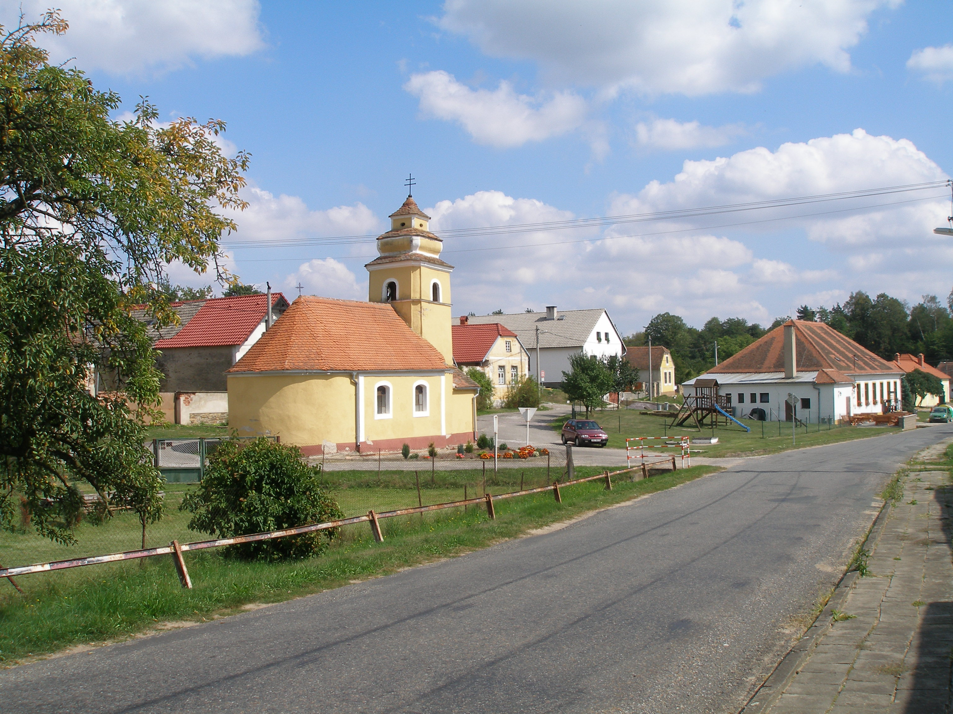 Podmyče, (Znojmo District, South Moravian Region), the square with Saint Margaret chapel.